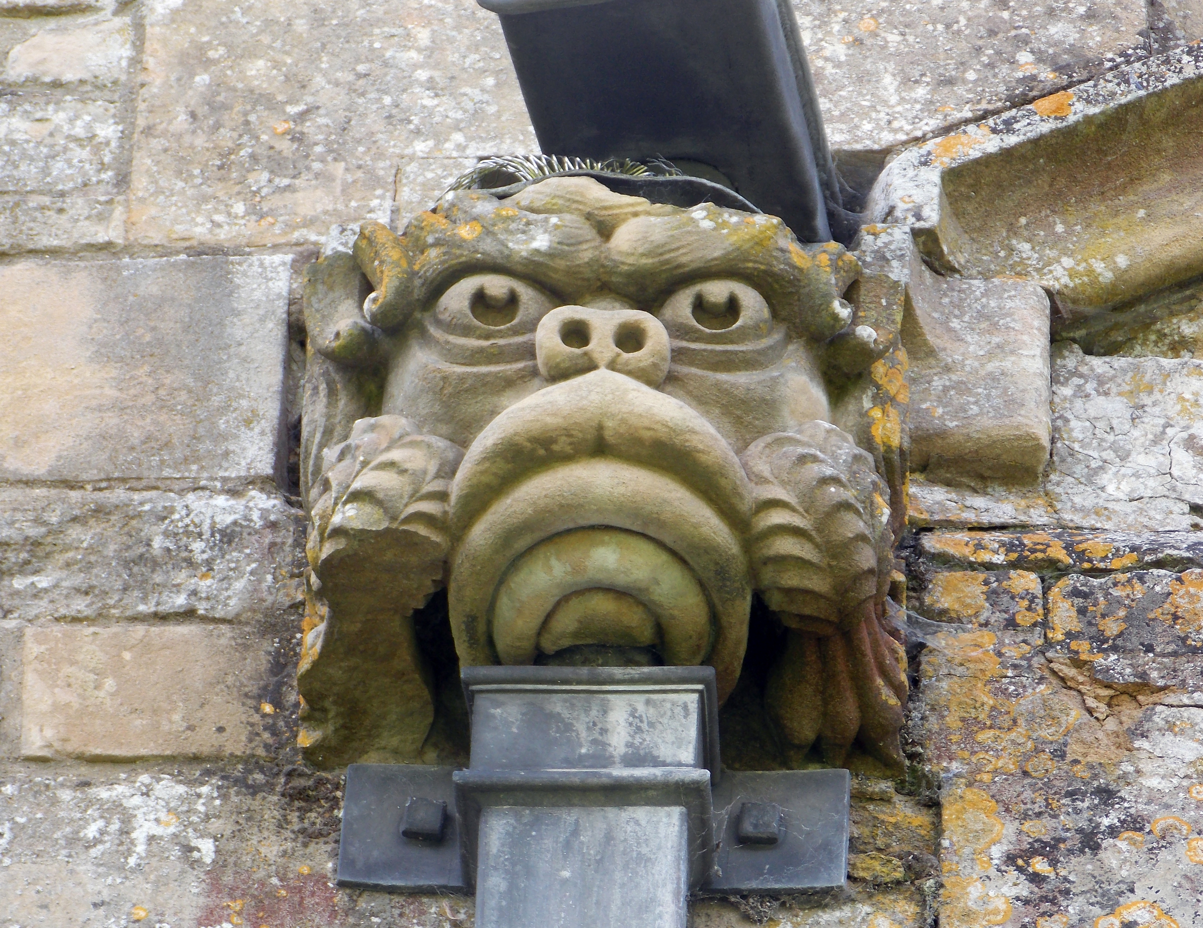 Ss Andrew & Mary, Stoke Rochford, exterior - east wall gargoyle